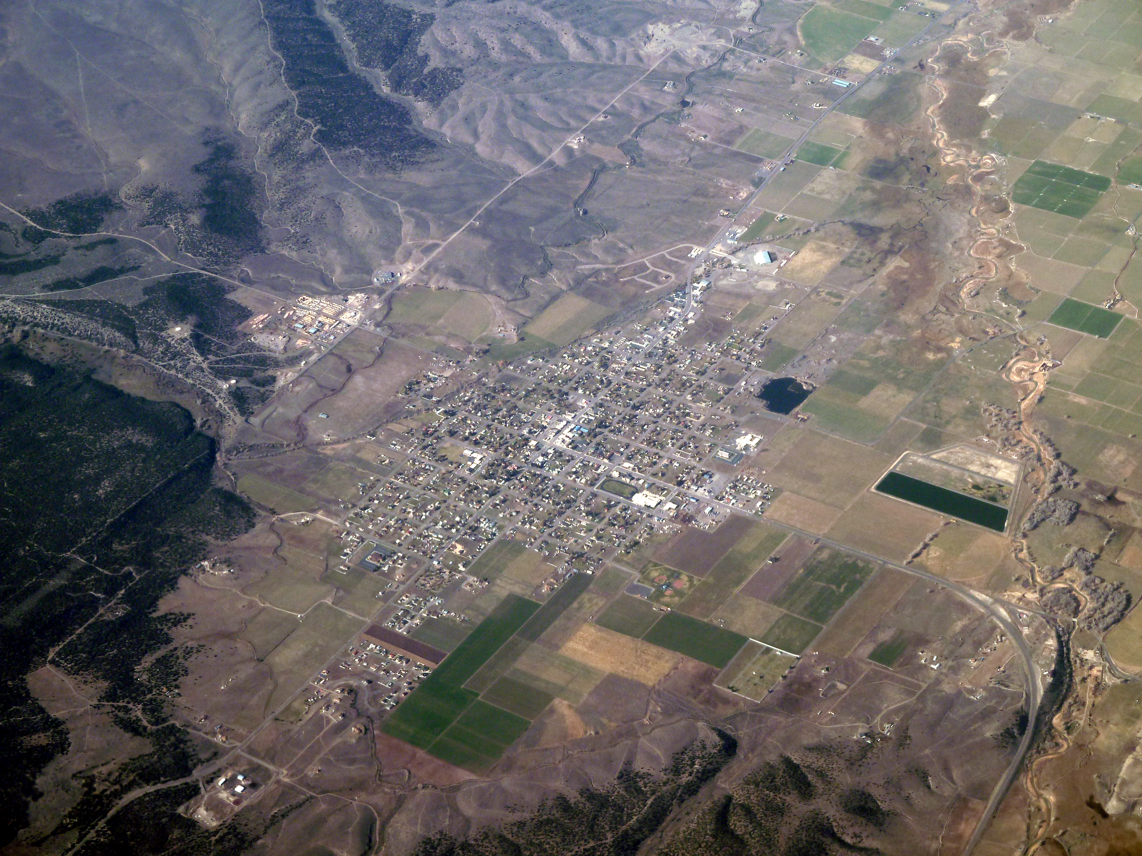 Aerial photograph of Panguitch, Utah, USA.